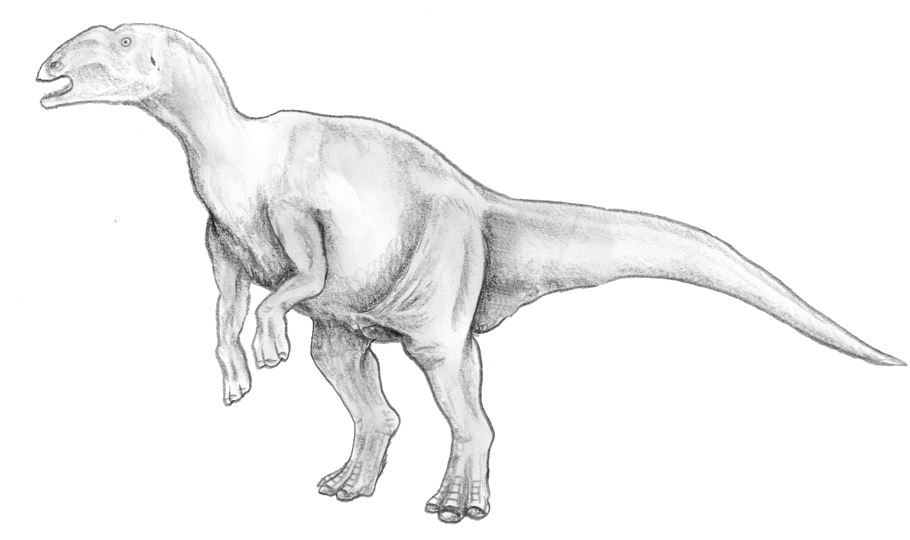 Hadrosaurus, a duckbilled dinosaur from the Upper Cretaceous of North America